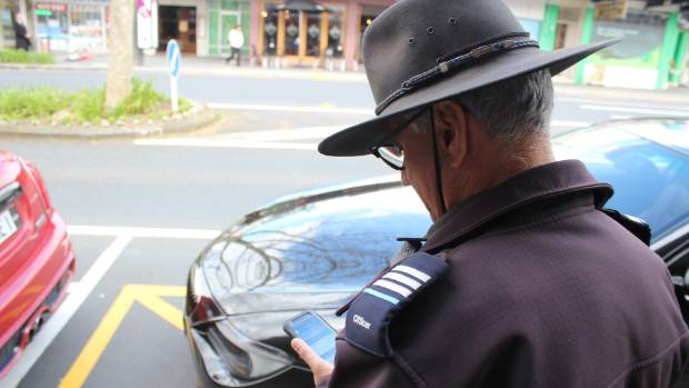 Parking Officers in Auckland commonly undertake bylaw enforcement duties.